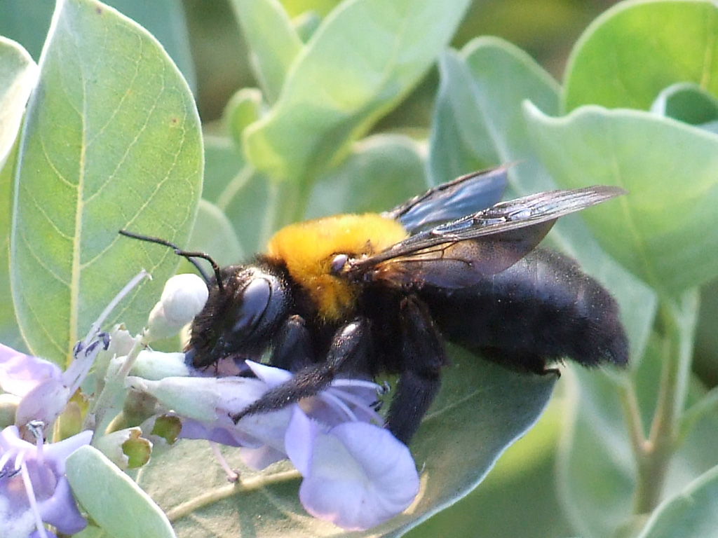 Japanese Carpenter Bee (Xylocopa appendiculata), nectar robbing a flower.